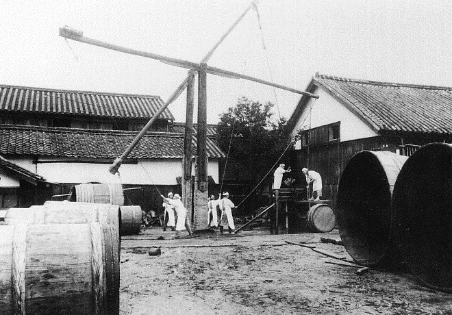 Miyamizu Well in Meiji era